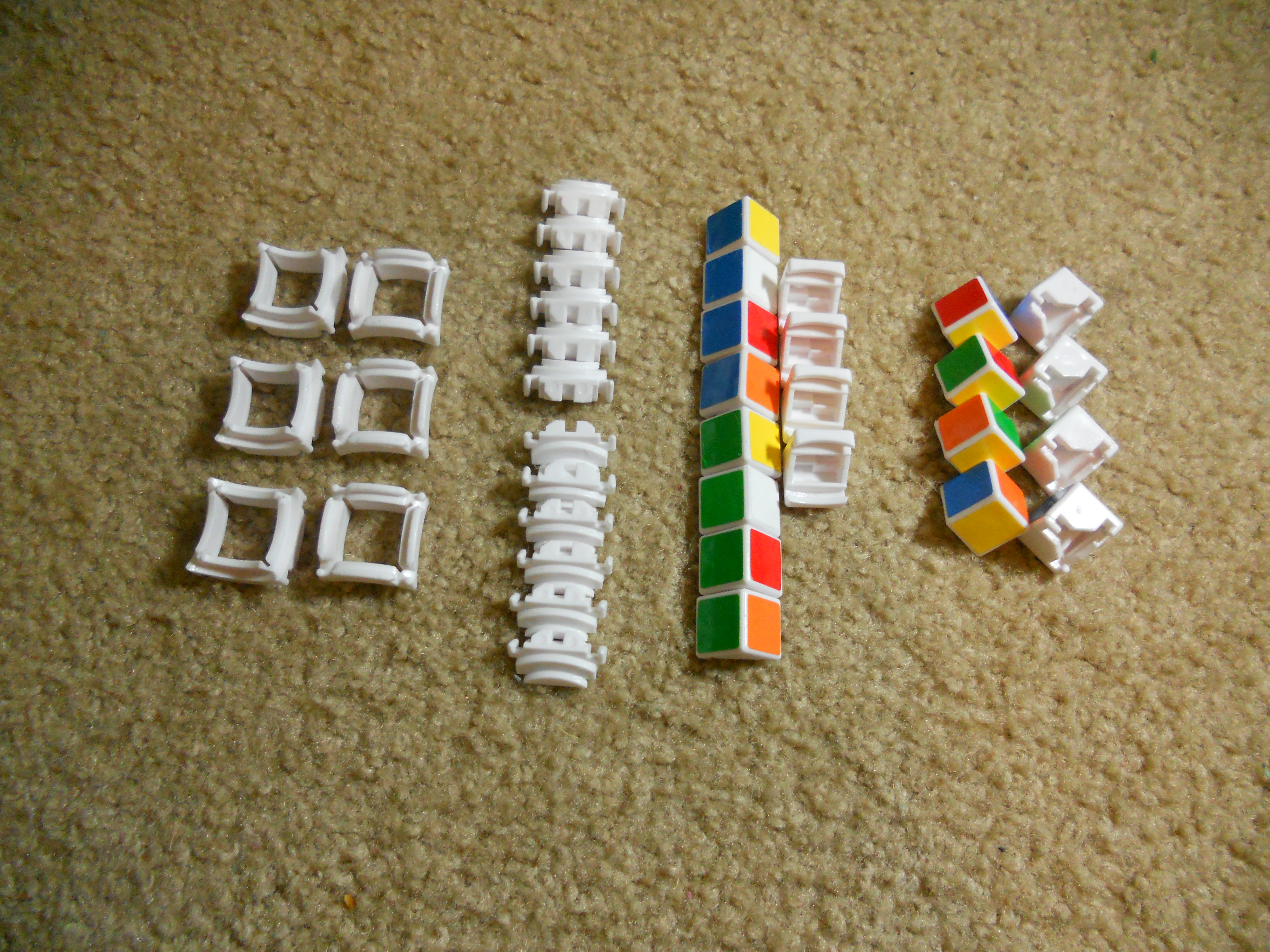 Disassembled Void Cube